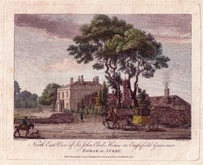 North east view of Sir John Elwill's house on Englefield Green, near Egham, Surrey. Built between 1758 and 1763 it was originally known as Elvills but is now known as Castle Hill.